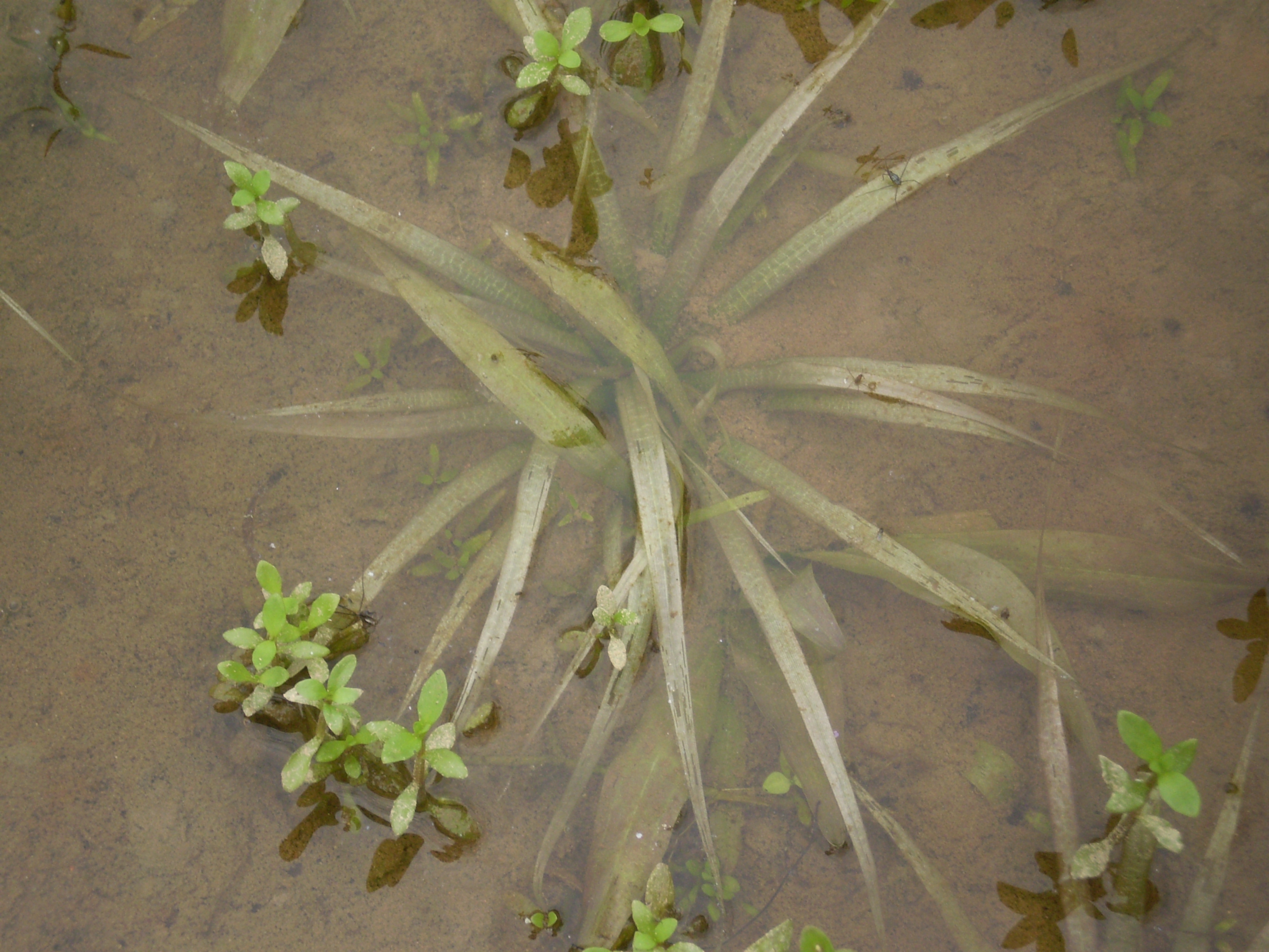 Blyxa echinosperma (sharp leaves), Ottelia japonica (broad leaves), Lindernia procumbens (small leaves)